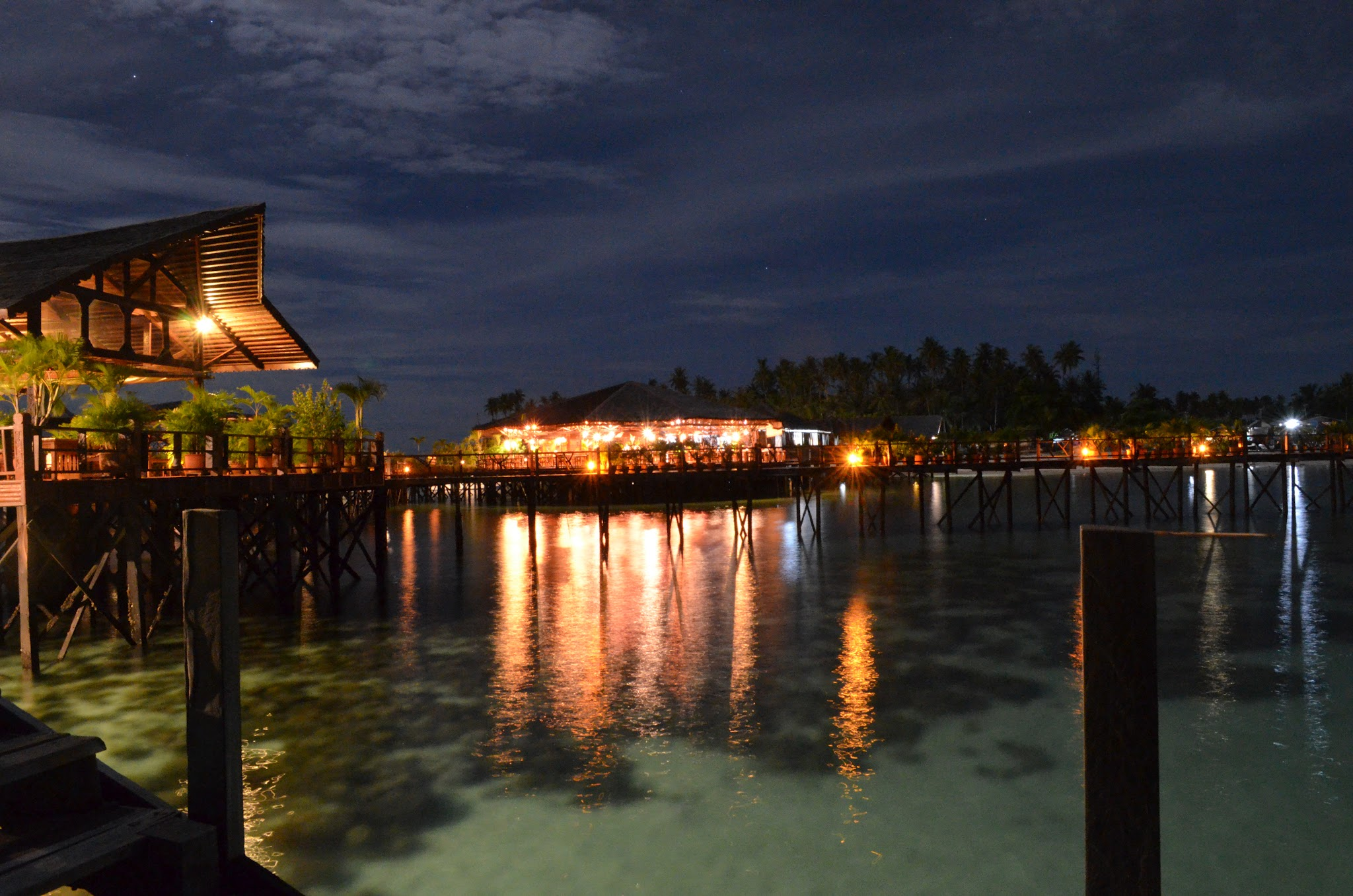 Mabul Island at night